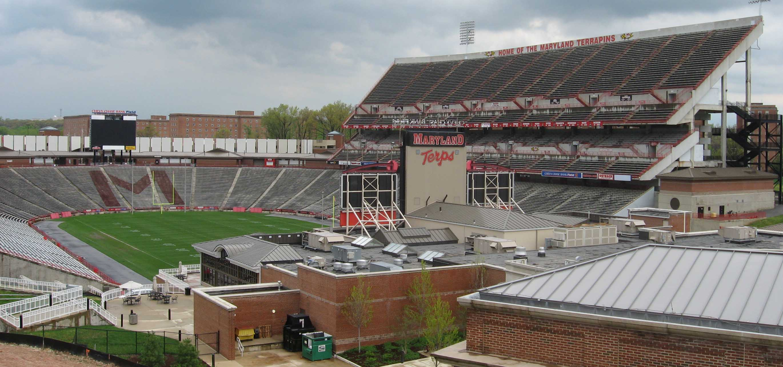 Chevy Chase Field at Byrd Stadium at the University of Maryland College Park.